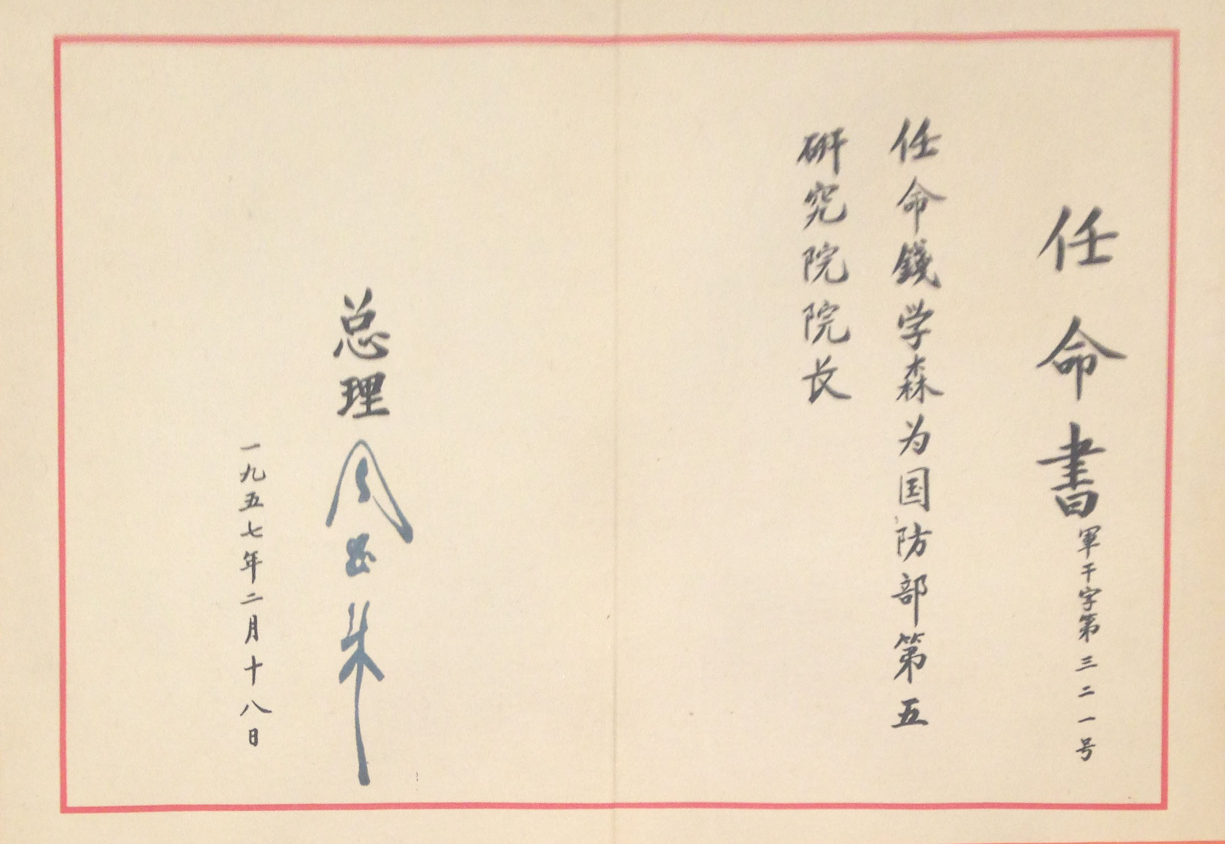 Appointment signed by Zhou Enlai, in which Qian Xuesen was appointed as president of the 5th Research Institute of the Ministry of National Defense of China. The original copy is owned by Qian Xuesen Library of Shanghai Jiao Tong University, where the photo was taken.